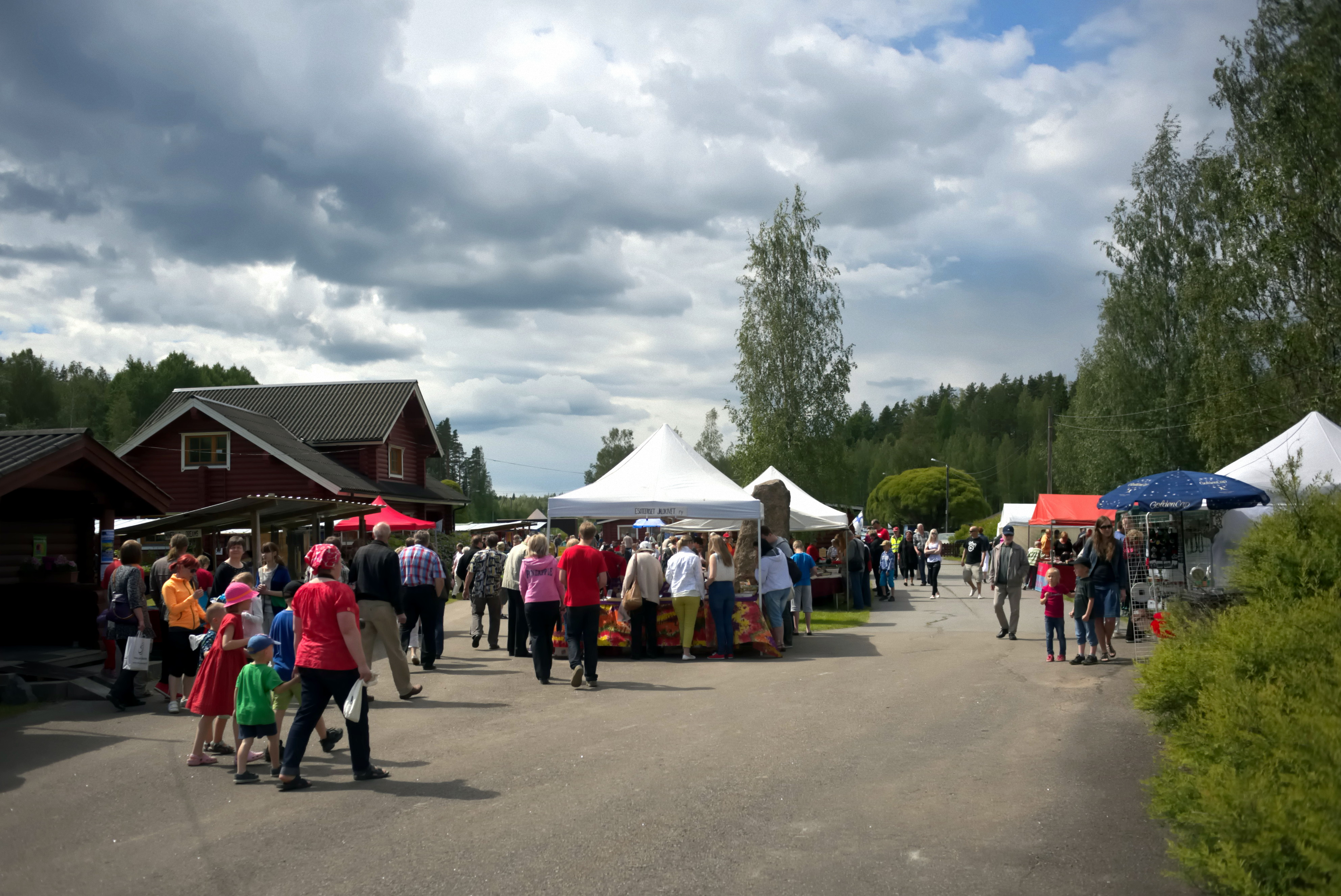 Ylämaa International Gem & Mineral Show 2014